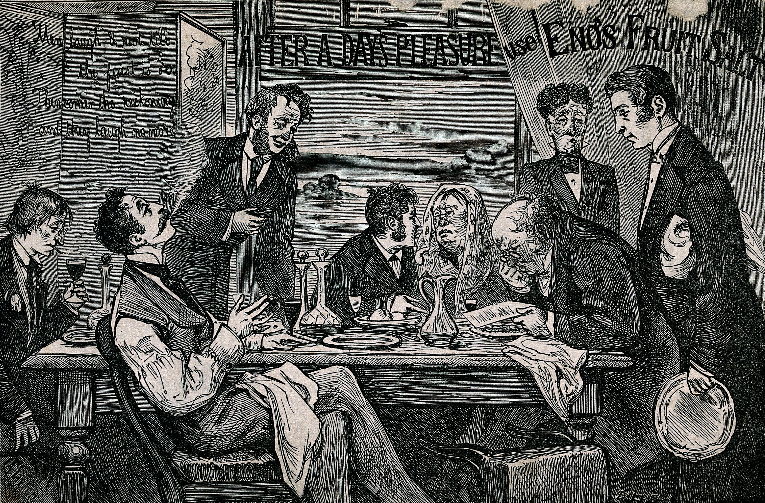 An advertisment for Eno's Fruit Salt with men carousing at a table. Wood-engraving, c. 1890, after A. Claxton. Iconographic Collections Keywords: Dalziel.; Adelaide Claxton; eno's fruit salt